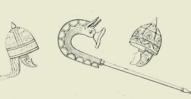 Image include two Dacian helmets and Dacian carnyx (that is similar to the Celtic carnyx) as represented on 2nd century AD Trajan Column Rome. It belongs to ancient Dacians' weapons and warfare. This is a modified work of an image with expired copyright because of its age. The original source was published in 1812 by Thomas Hope (1769–1831) "Costume of the ancients, Volume 1" London